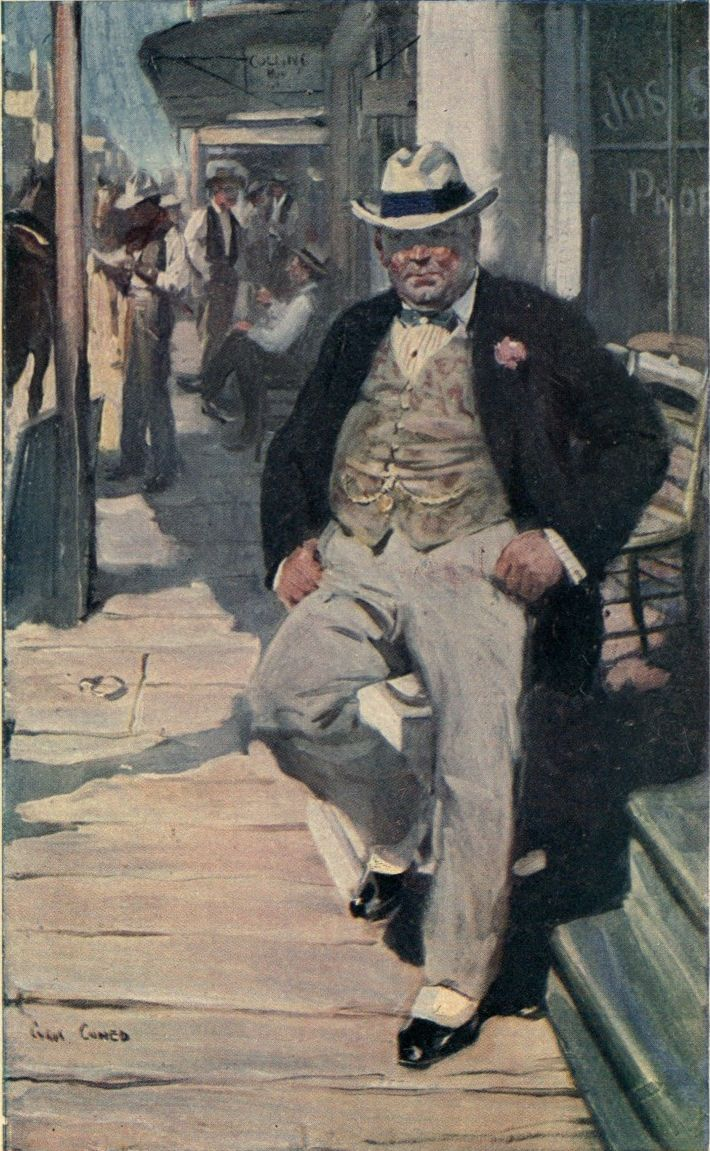 An image of Mr. Smith outside his hotel.